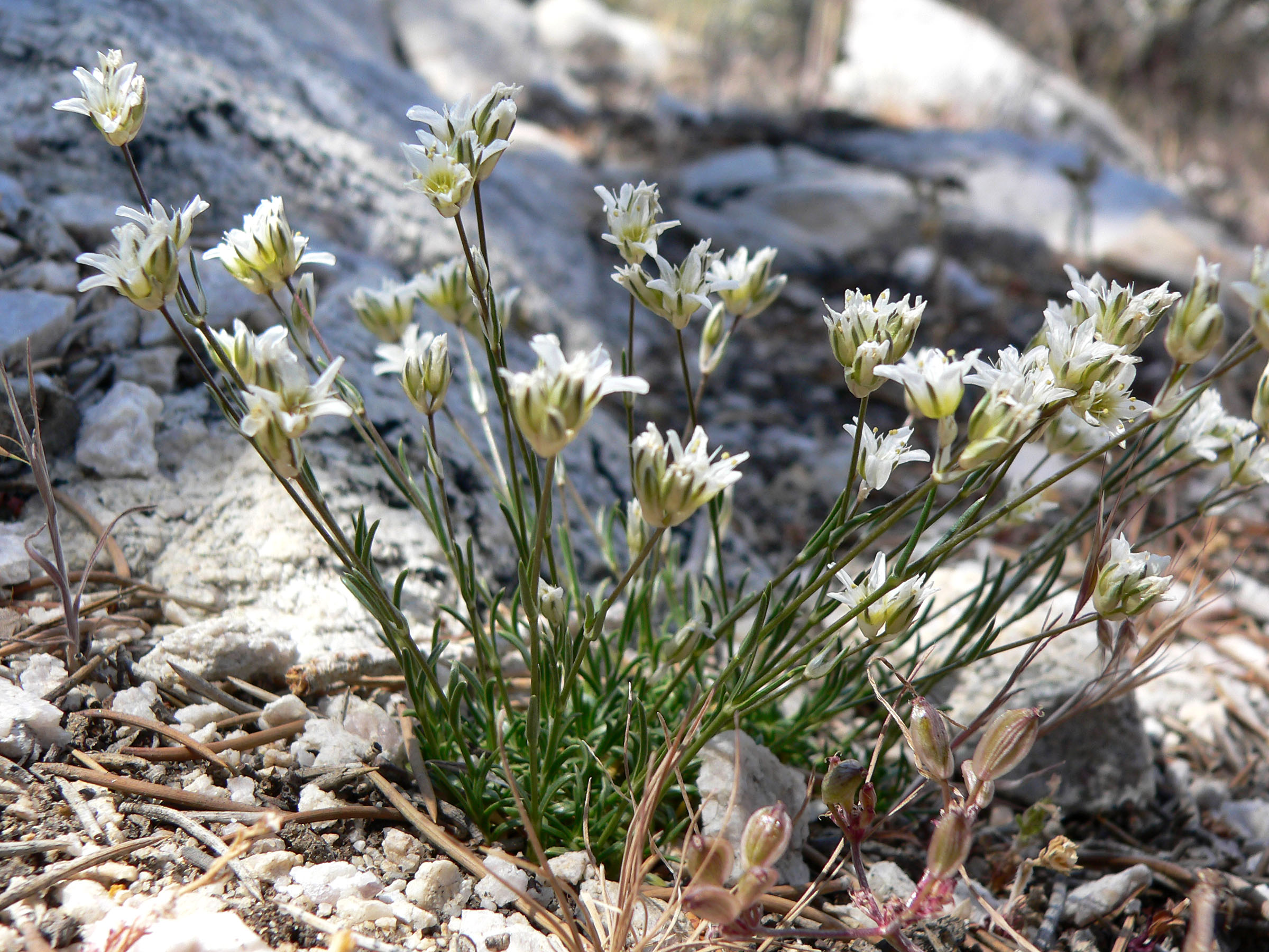 Eremogone congesta var. charlestonensis amongst the quartzite rocks in the mine workings at the end of road 592(?), about 1.5 km NNE of Mount Stirling, Spring Mountains, southern Nevada (elev. about 2100 m); while var. subcongesta is also known from these mountains, var. charlestonensis is suggested by the compactness of the inflorescence and the spinose sepals